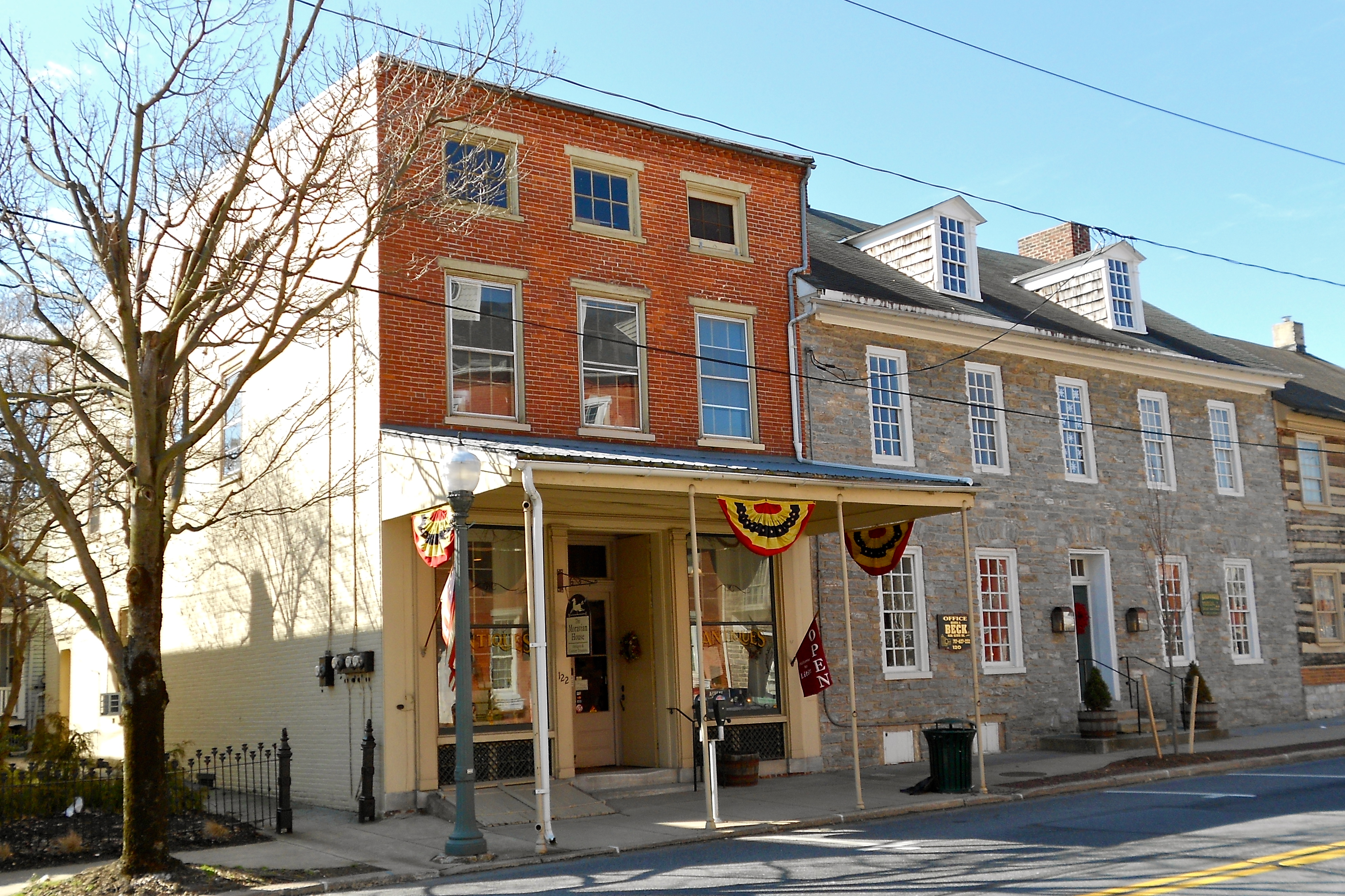 Congregational Store on the NRHP since January 6, 1983. At 120–122 East Main Street, Lititz, Lancaster County, Pennsylvania. The building on the right is the original store, with the building on the left an extention.